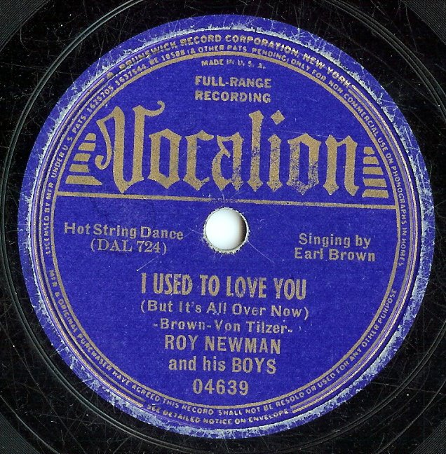 A record of Roy Newman's "I Used To Love You", published by Vocalion Records